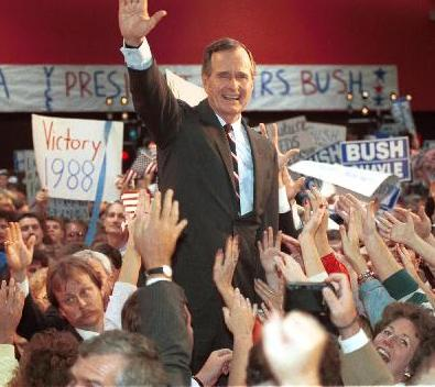 Vice President George H. W. Bush attends a campaign rally in Omaha, Nebraska